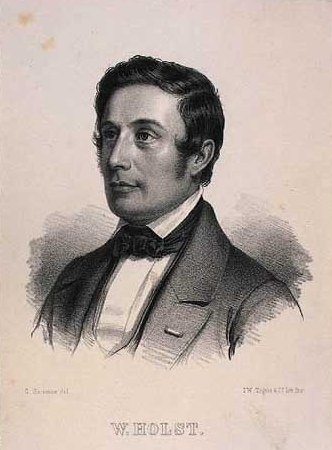 Wilhelm Conrad Holst (1807-1898), Danish actor. 1851 lithograph from a drawing by Geskel Saloman.